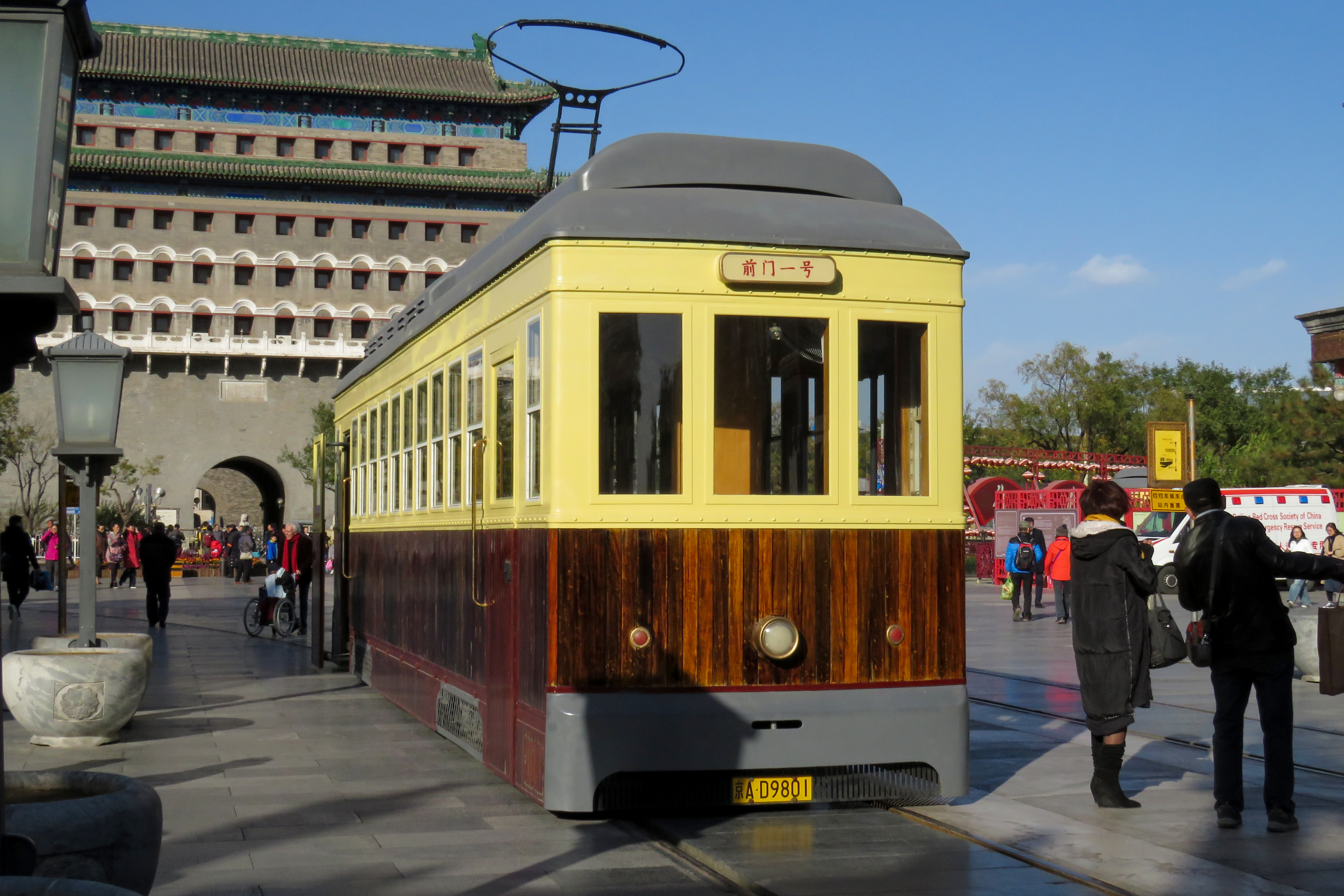 This is not strictly a "tram" - just a tram-like creature built by Beijing Subway Rolling Stock Works (BSR) in 2008.